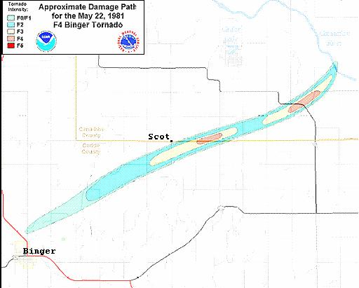 Path of the Bringer Tornado of 1981 Licensing This image is in the public domain because it contains materials that originally came from the U.S. National Oceanic and Atmospheric Administration, taken or made as part of an employee's official duties.